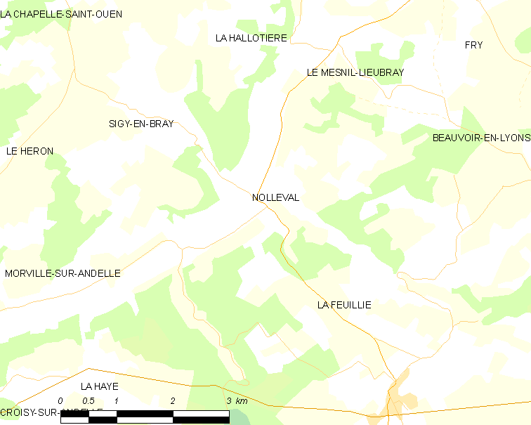 Map of French municipality Nolléval